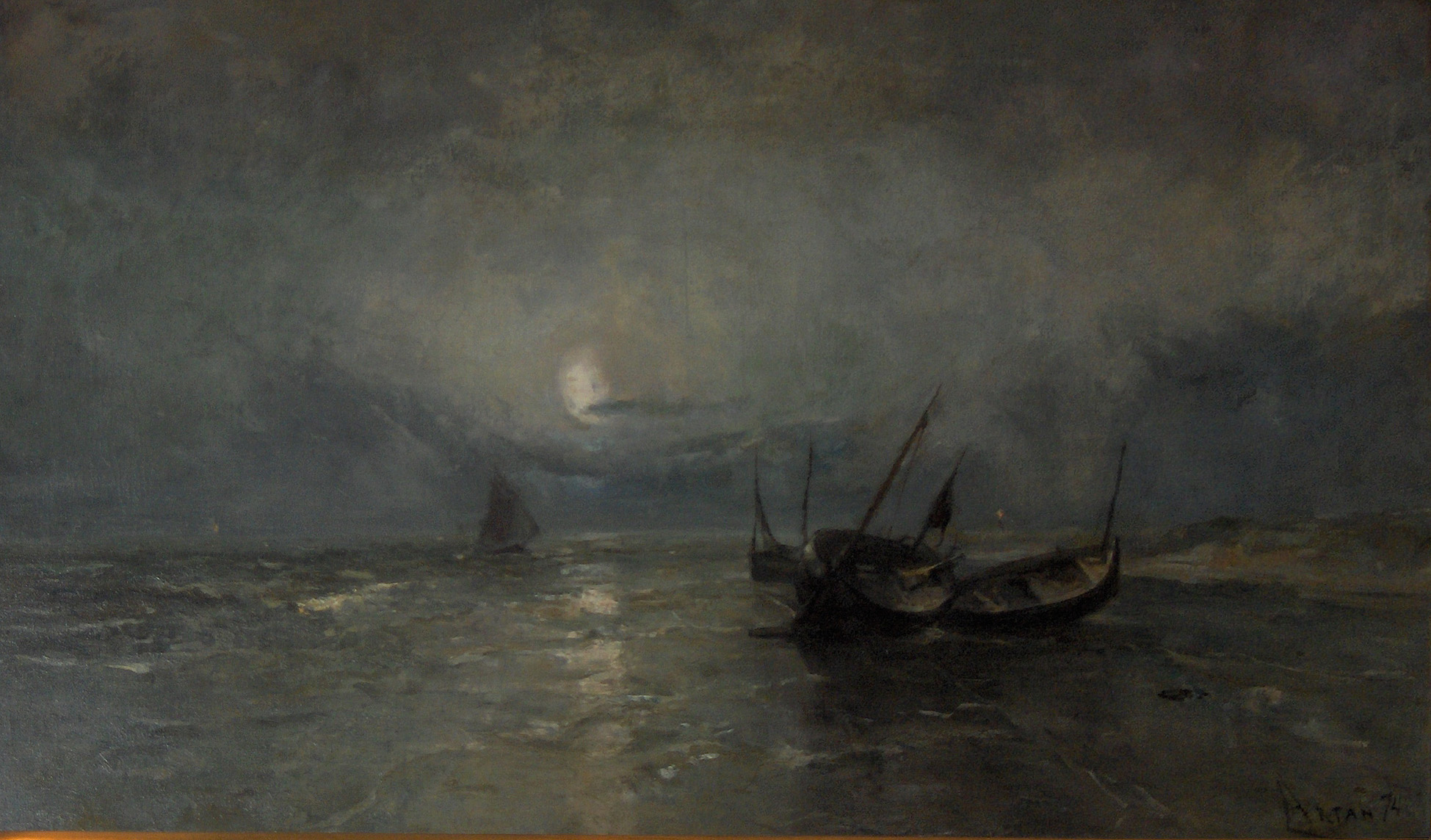 "Stranded vessels in the night", painting by Louis Artan (1837-1890)